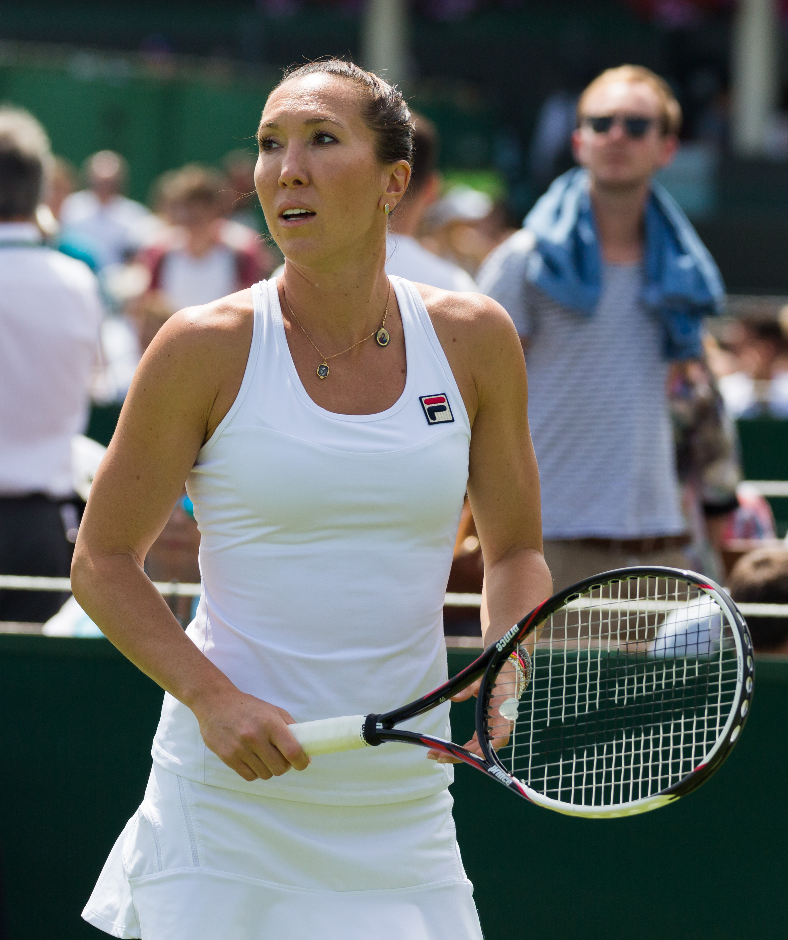 Jelena Janković competing in the first round of the 2015 Wimbledon Championships.